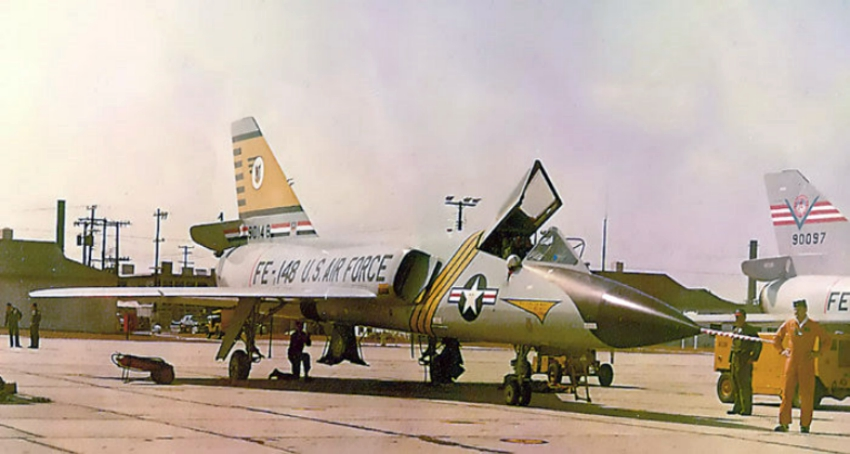 Convair F-106A-135-CO Delta Dart 59-0148 456th Fighter-Interceptor Squadron; Tyndall AFB, Florida 1961. Pilot: Lt. Col. James L. Price.